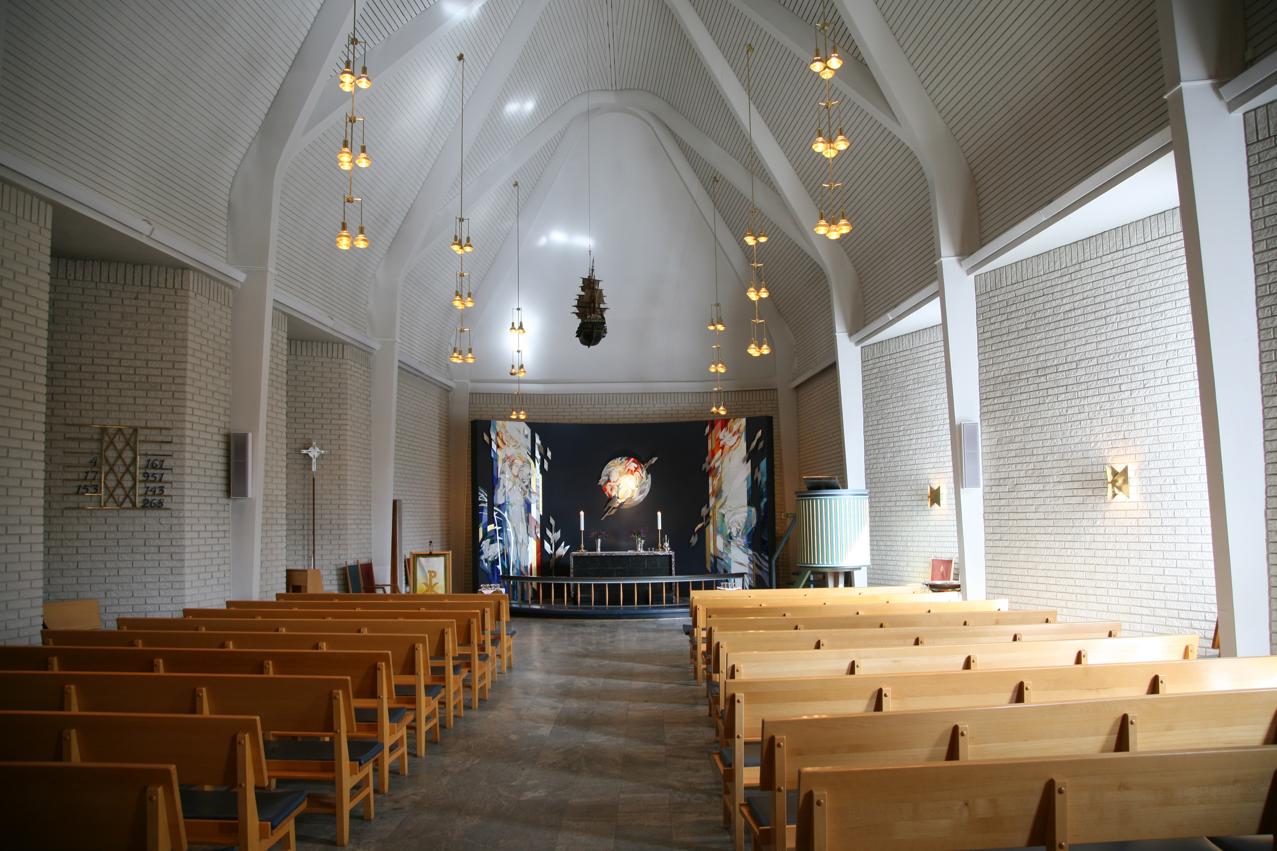 Interiour of Bygdøy kirke, a church in Oslo, Norway